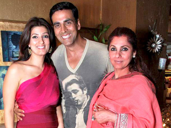 Akshay Kumar(centre) with his wife Twinkle Khanna(left) and actress and mother-in-law Dimple Kapadia(right)